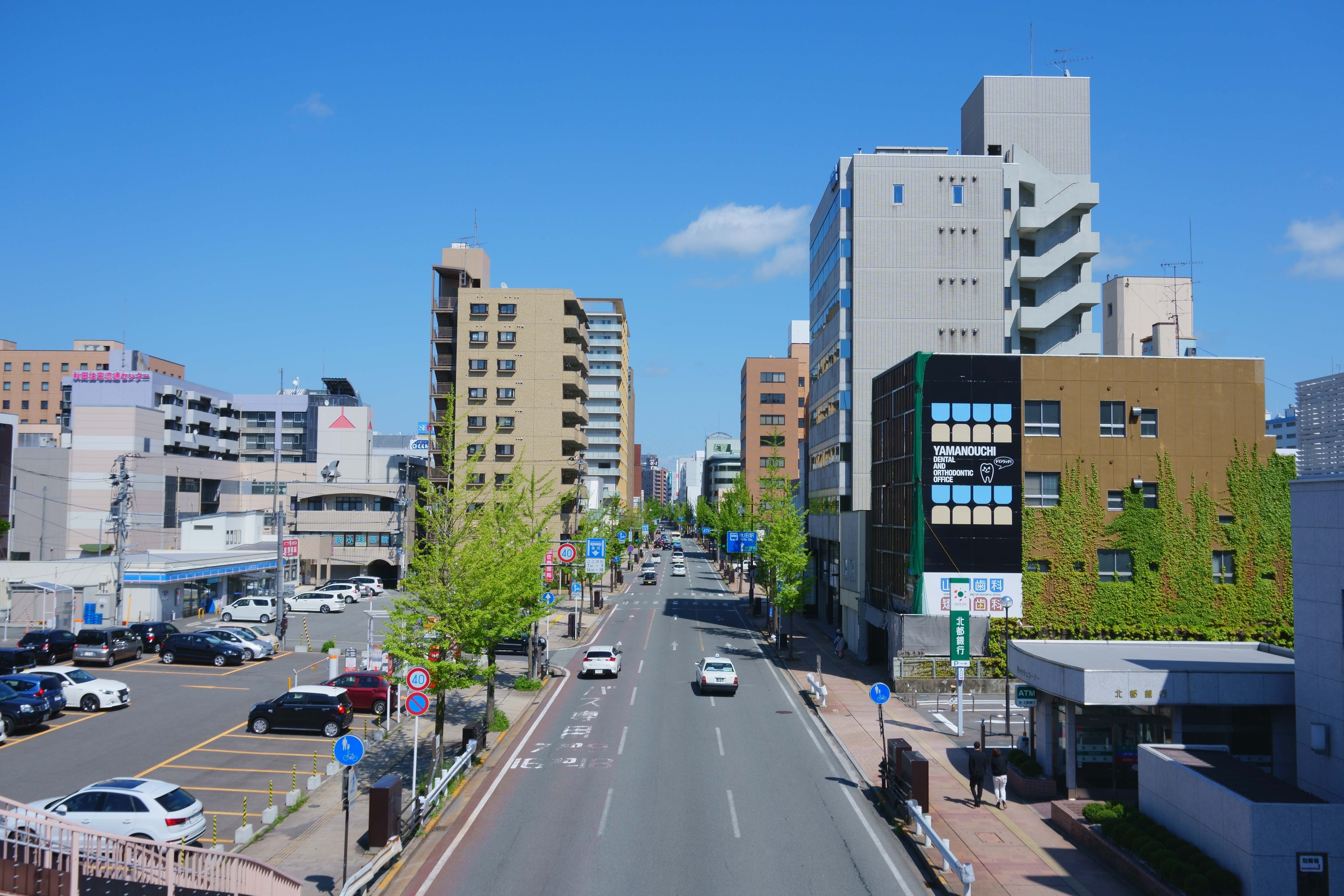 View from western end of the Chuo-dori street, Akita City